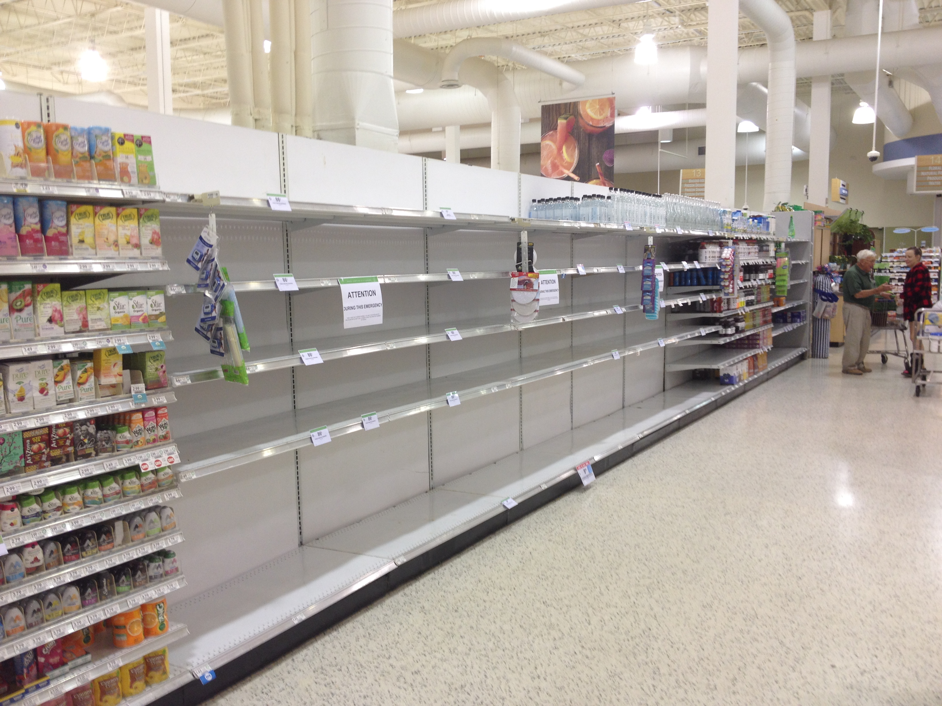 Shelves at a Publix Supermarket in Winter Haven, Florida (store #448; 6031 Cypress Gardens Blvd.) have been wiped of all water bottles before the arrival of Hurricane Irma. This image was taken a few minutes before the store closed at 3PM on September 9. The store was closed on September 10 & 11 (Hurricane Irma passed on the night of September 10-11).